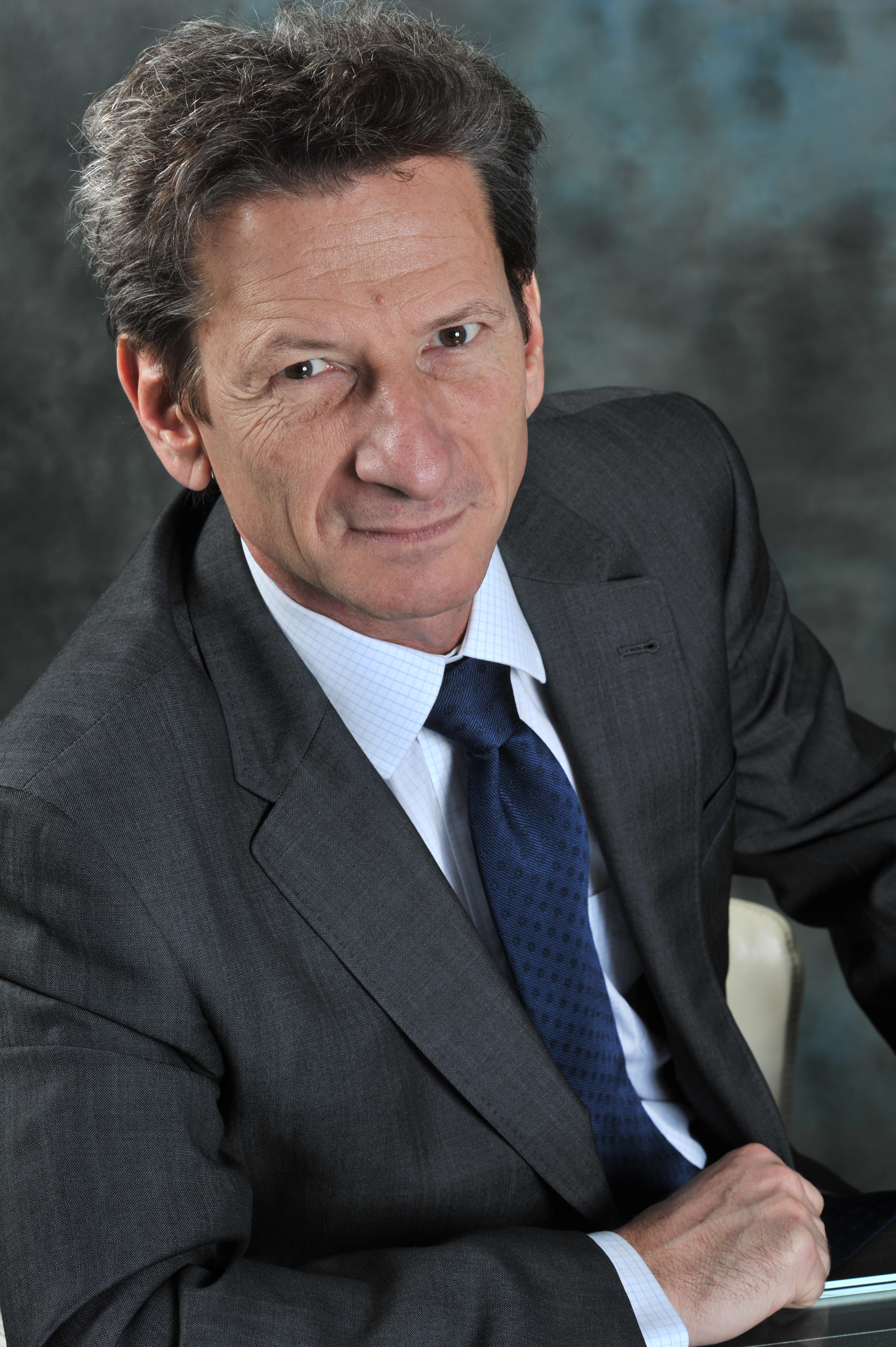 Picture of Jerome Tafani, Europe CFO of Mc Donald's